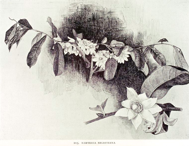 Barteria nigritiana